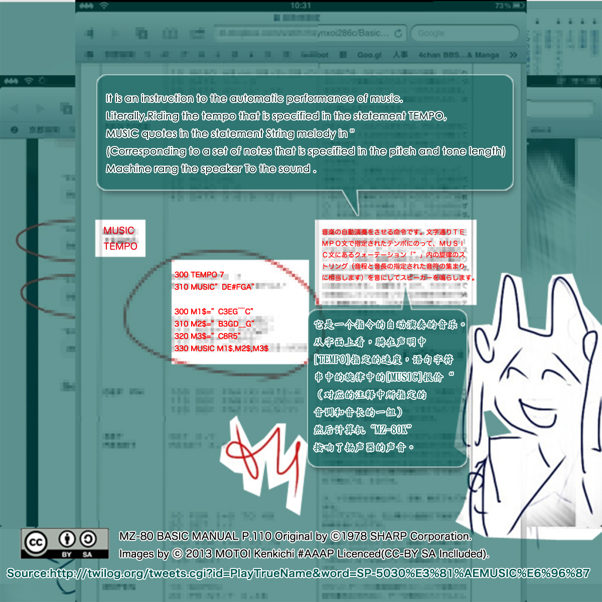 AAAP License(CC-BY-SA Included). Description